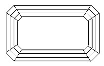 Emerald Cut